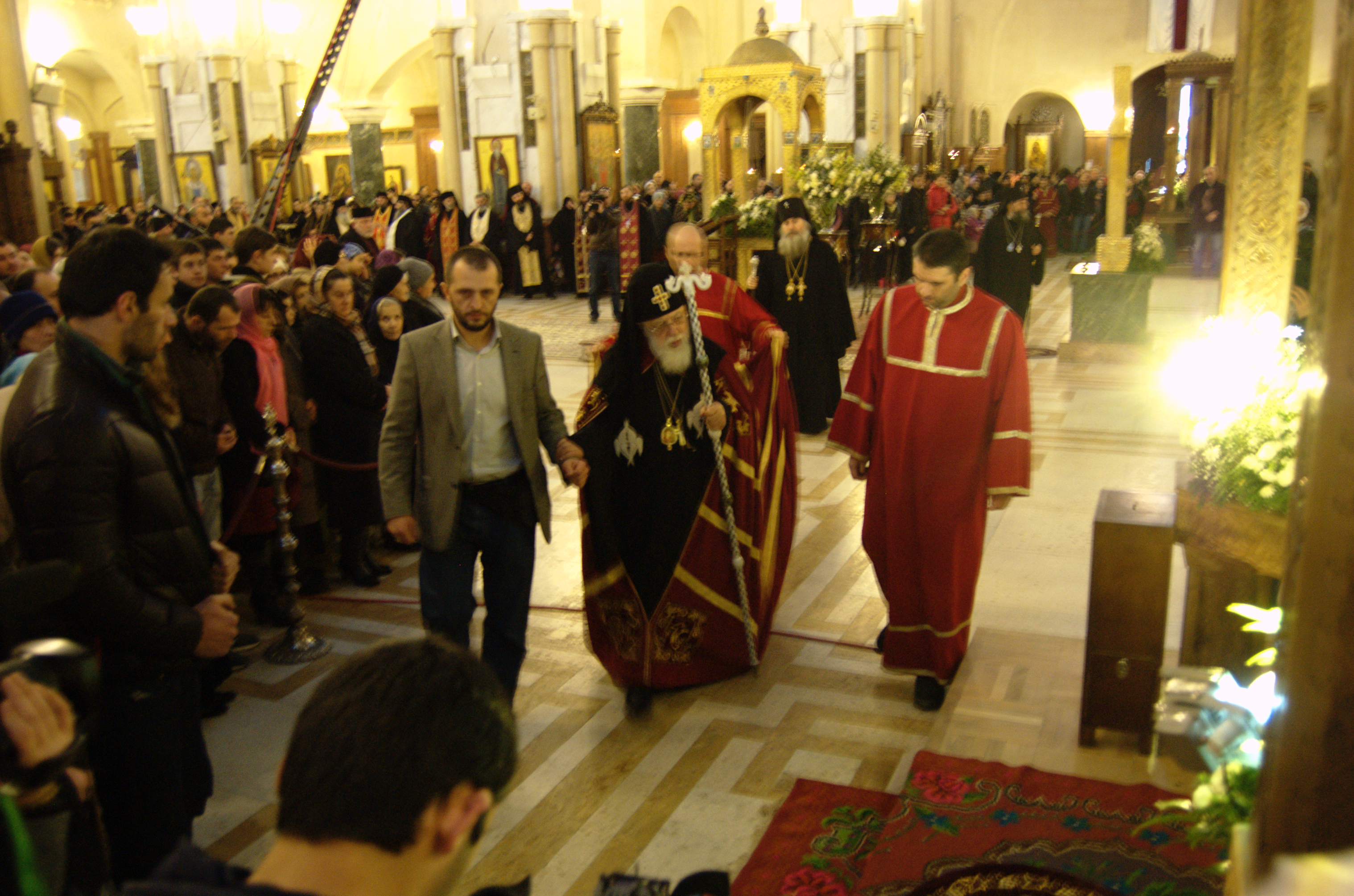 Patriarch Ilia II at the Sameba cathedral in Tbilisi, Georgia.